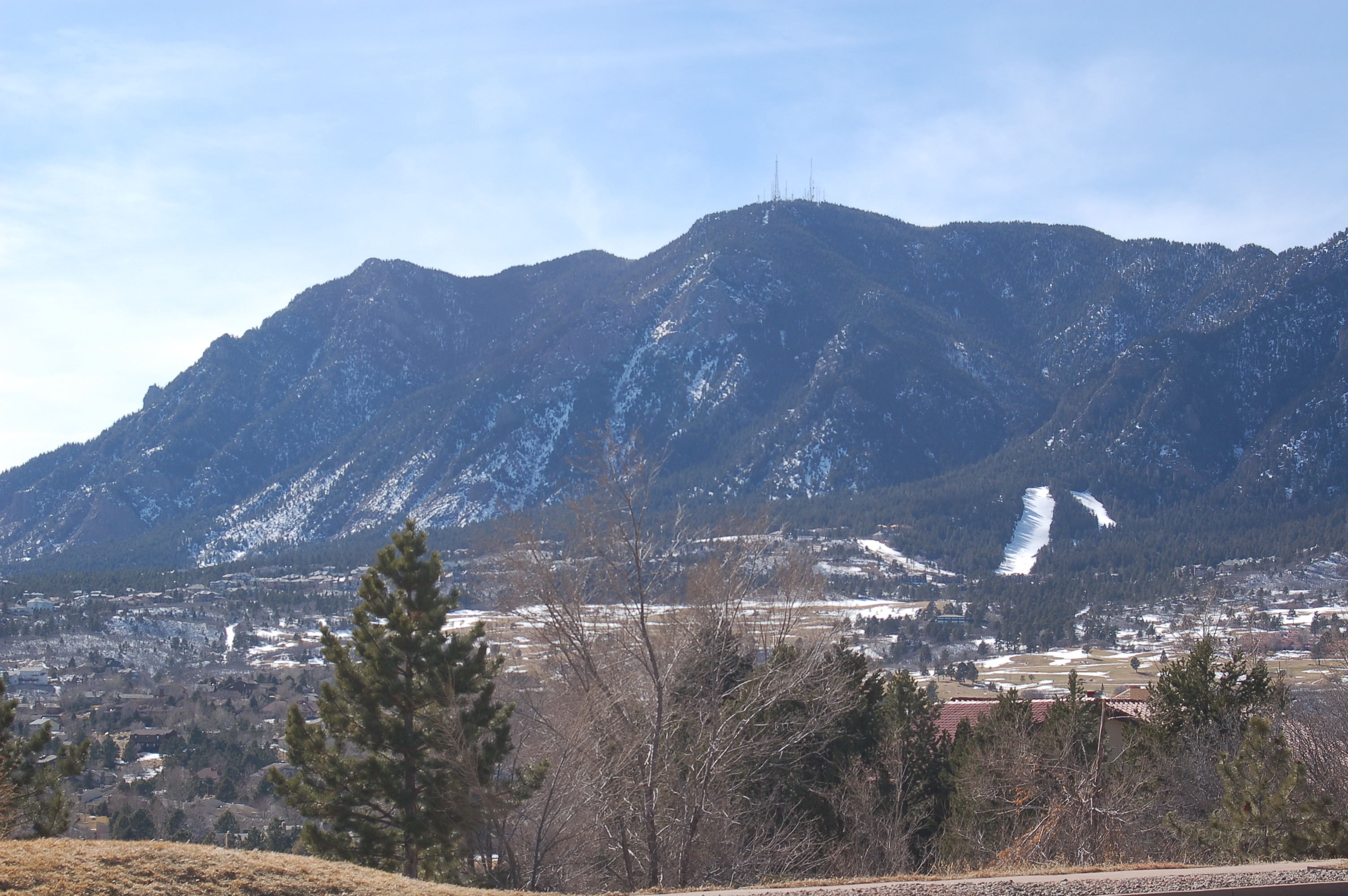 Cheyenne Mountain photographed from outside of Fort Carson in the direction of Colorado Springs. Trails of the former Ski Broadmoor can be seen to the right.